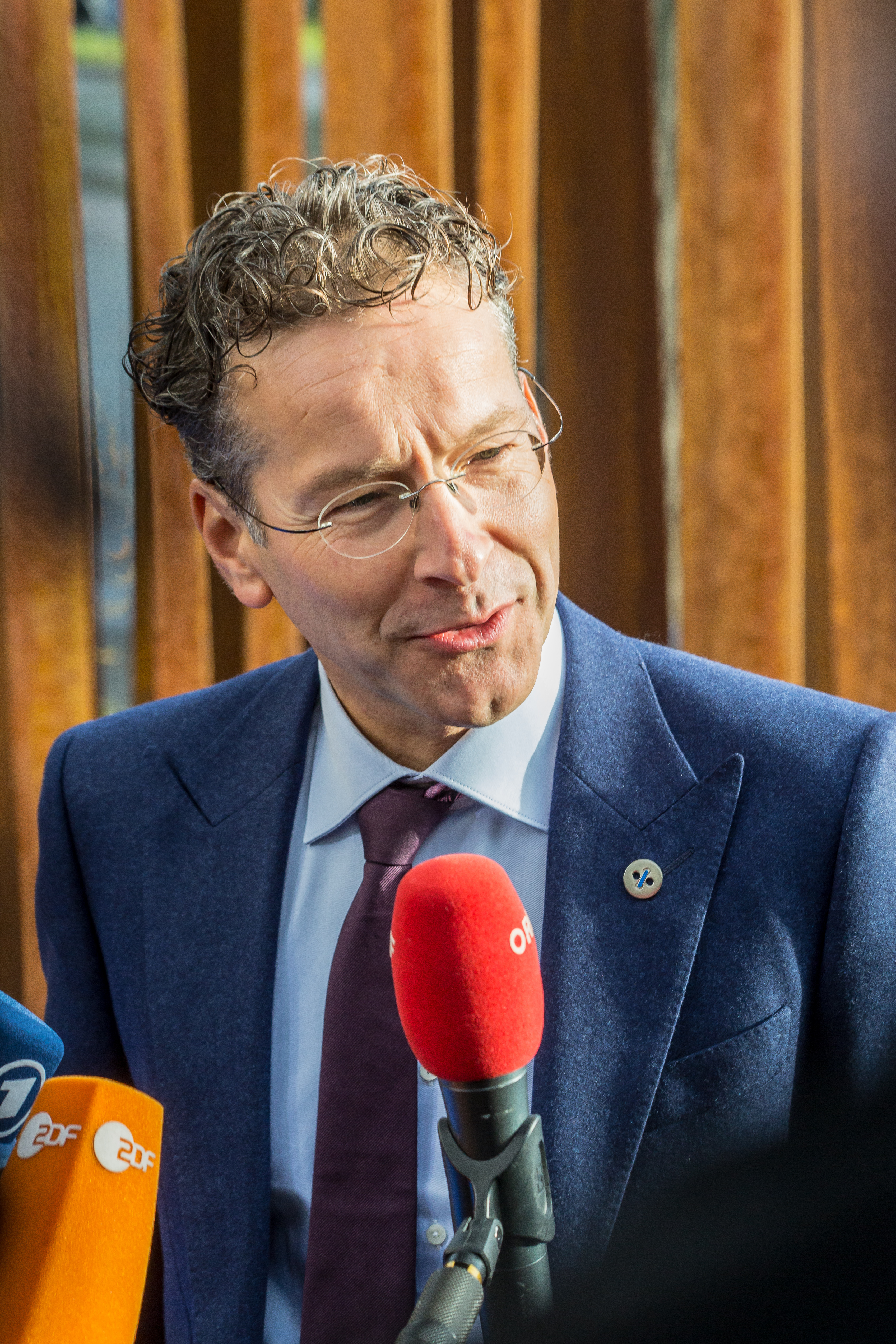 Jeroen Dijsselbloem, Minister, Ministry of Finance, The Netherlands Photo: Aron Urb (EU2017EE)